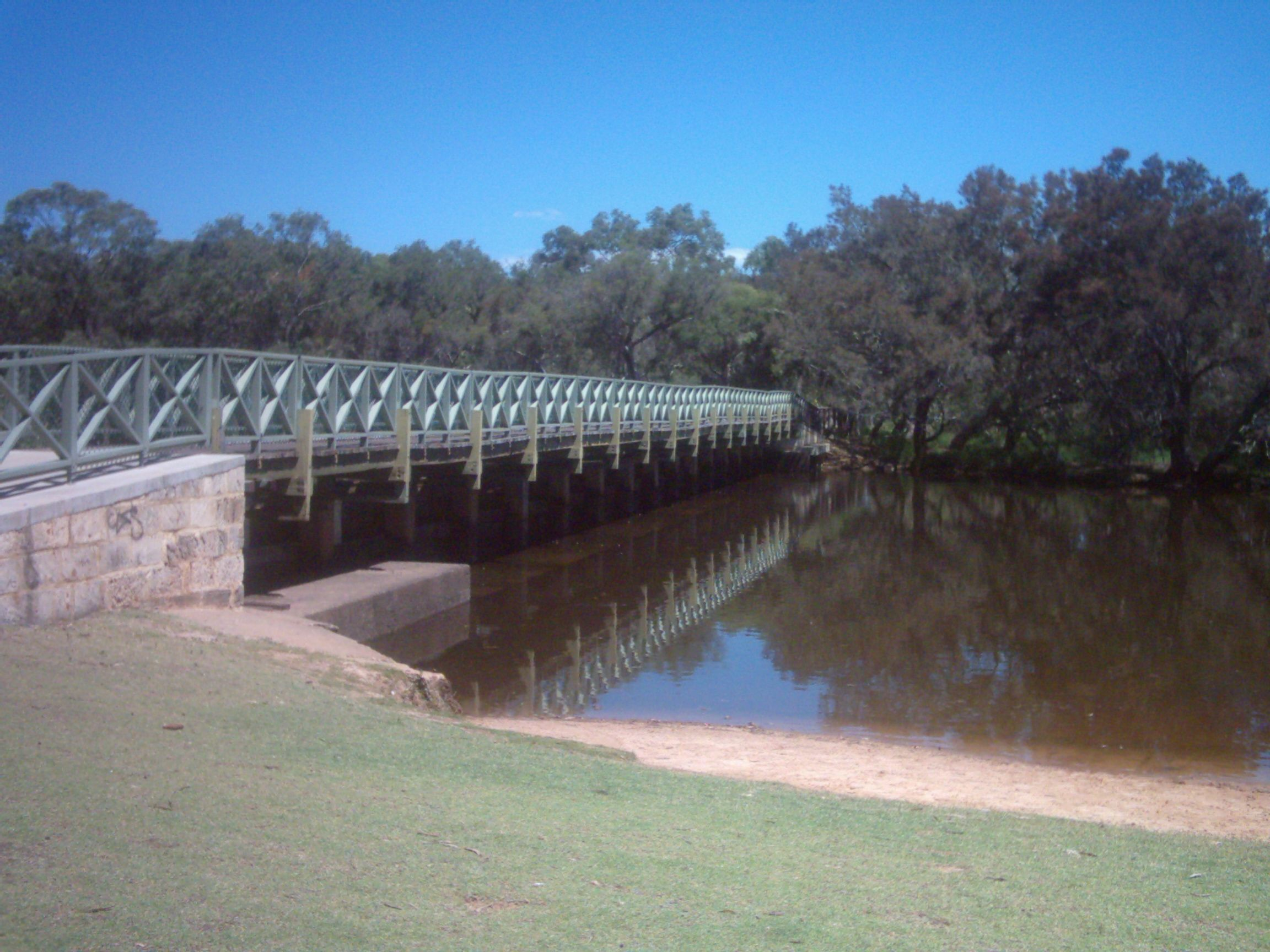 Kent Street Weir Cannington Western Australia